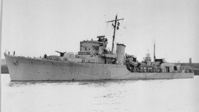 IWM caption : HMS ZETLAND at a buoy.